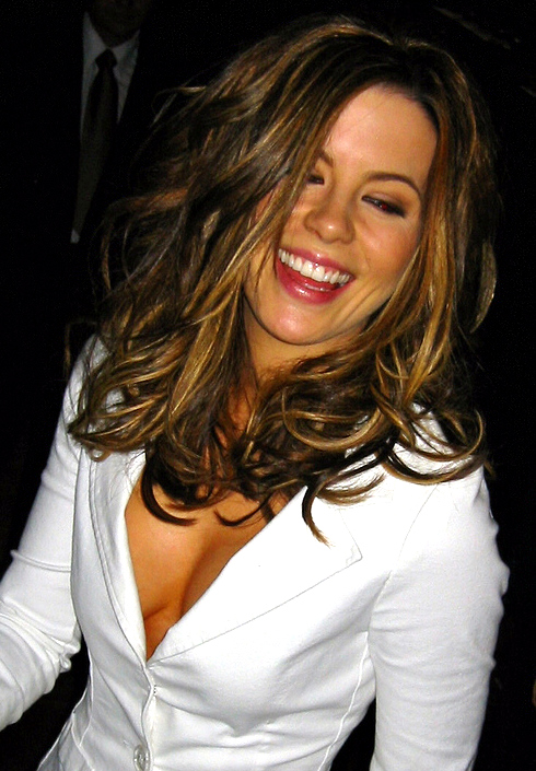 Kate Beckinsale after the premiere of Underworld (the first one) at the Toronto Film Festival 2003.